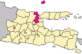 Gresik county in East Java province, Indonesia